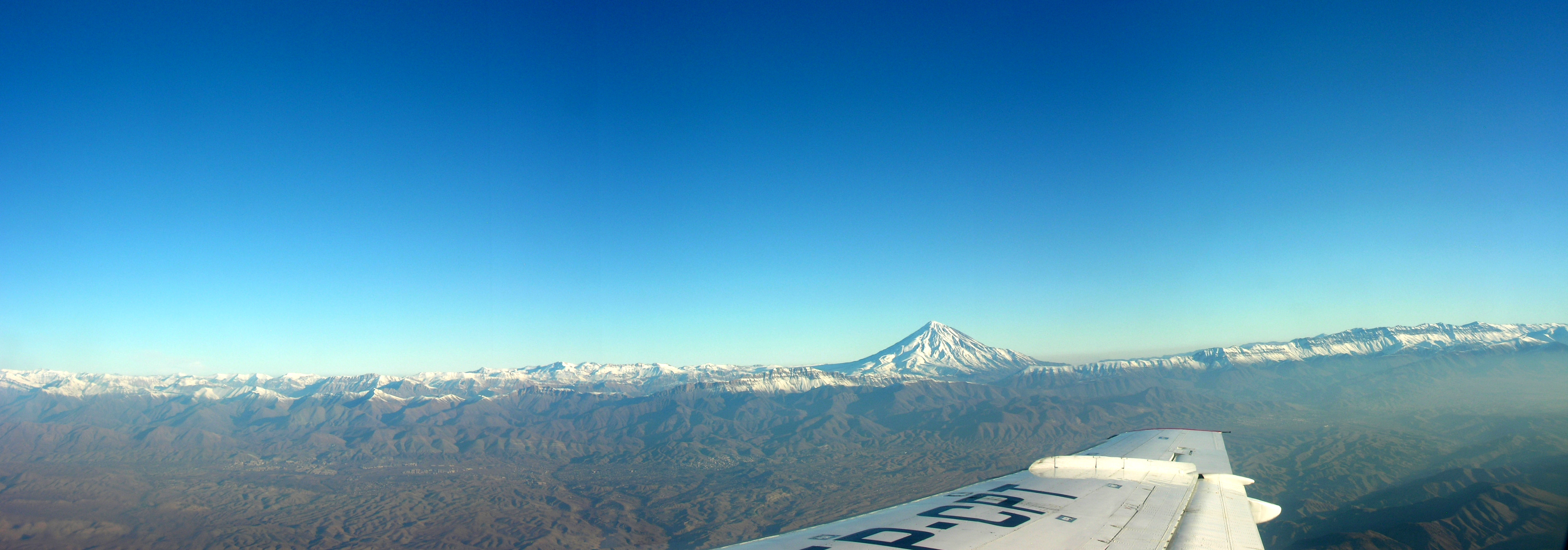 Iran, In-flight panorama of Damavand